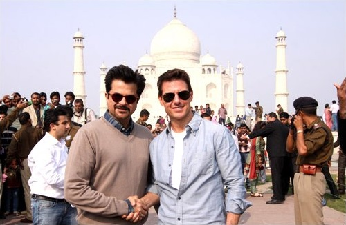 Tom Cruise visits the Taj Mahal with Anil Kapoor